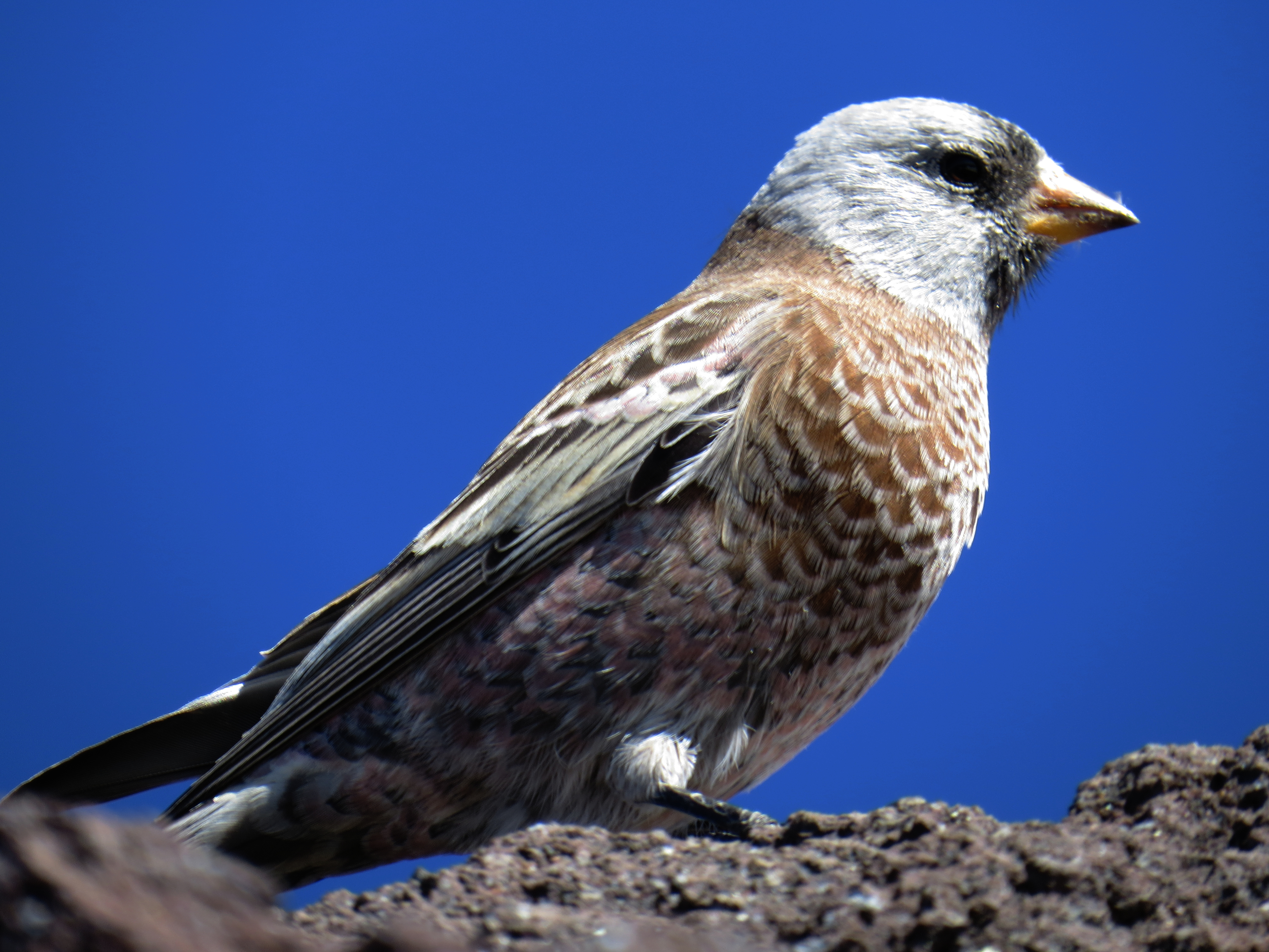 Gray-crowned rosy finch on the upper slopes of Mount Adams (Washington).